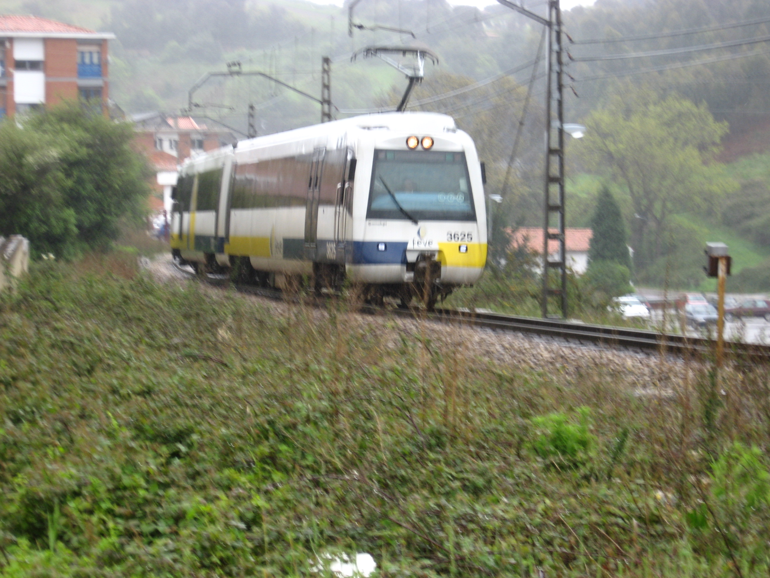 Train by Candás on the FEVE F4 line (Cudillero Gijón)